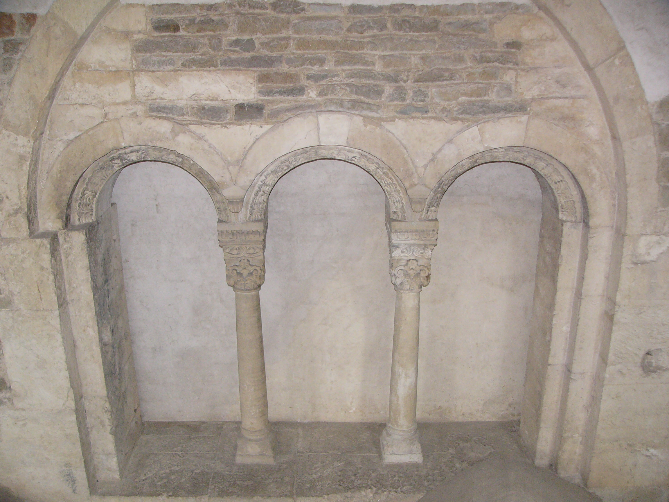 Round arches of romanesque architecture in Zdík's palace (in